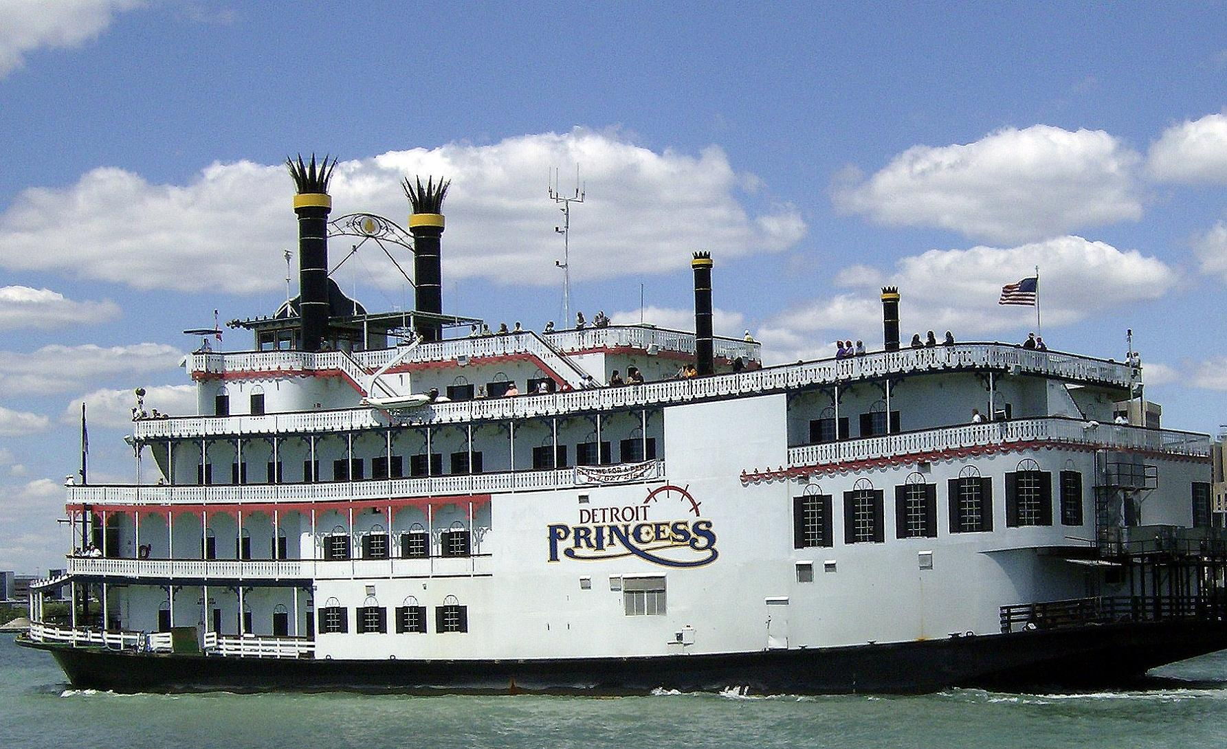 River Boat Charter leaves dock in downtown Detroit